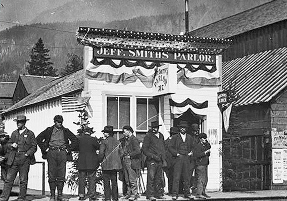 From source: Jeff Smith, nicknamed Soapy, was one of Skagway's most famous con men. He arrived in 1898 and started to take advantage of those whose mind was on the gold rush. Men were attracted to Jeff Smith's Parlor where they could enjoy liquor, gambling, and women, and lose money or gold in the process. This 1898 photo shows a group of men standing on the wooden sidewalk outside Jeff Smith's Parlor in Skagway, Alaska. The building has been reconstructed and is now a tourist attraction. Notes Original photograph: 1898?. Copied after 1902 by Webster & Stevens, who ran a photo-library advertising photographs for newspapers in Seattle, constituting publication under later US copyight law